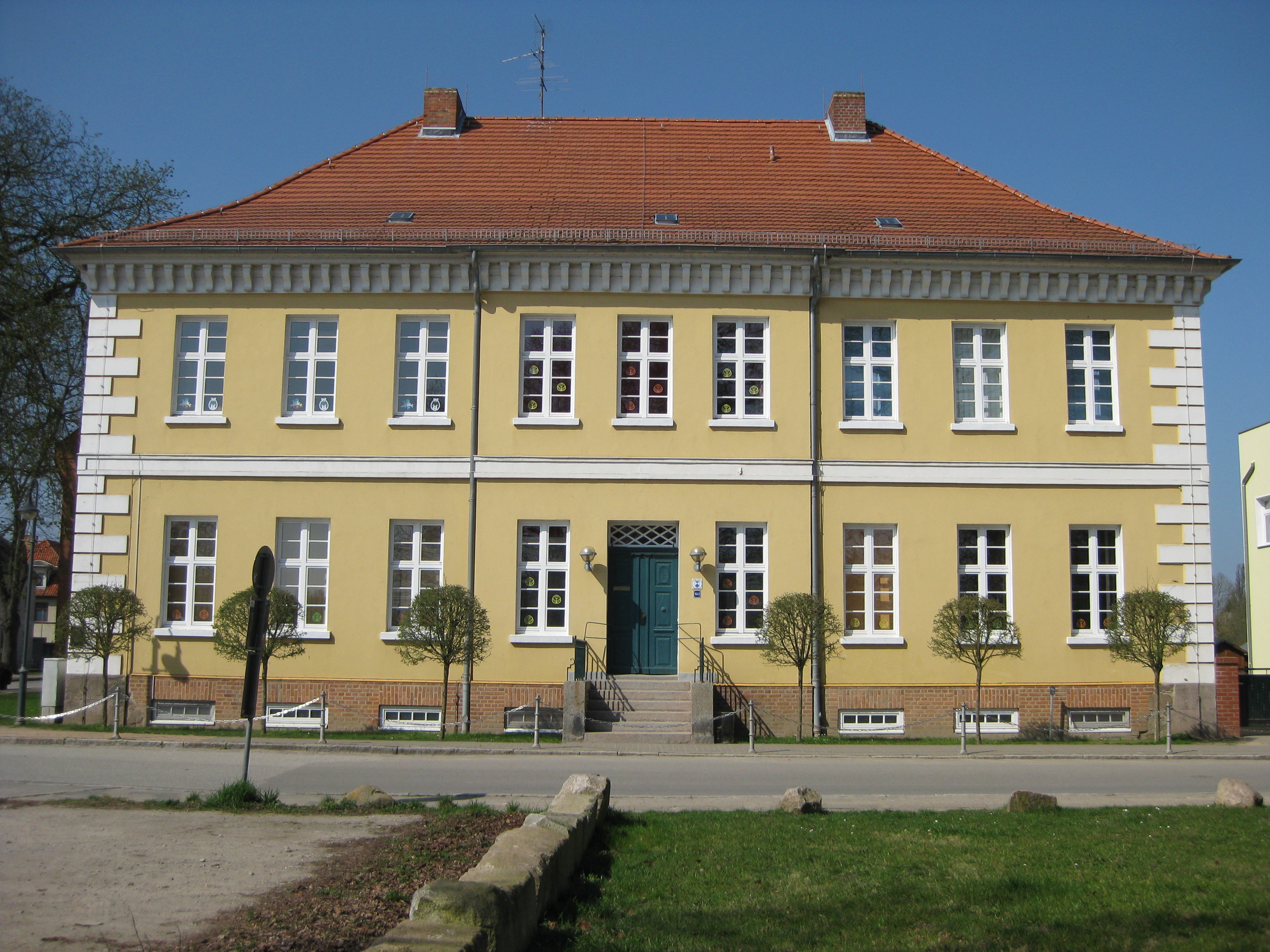 19th century school building in Schönberg, Meckl.